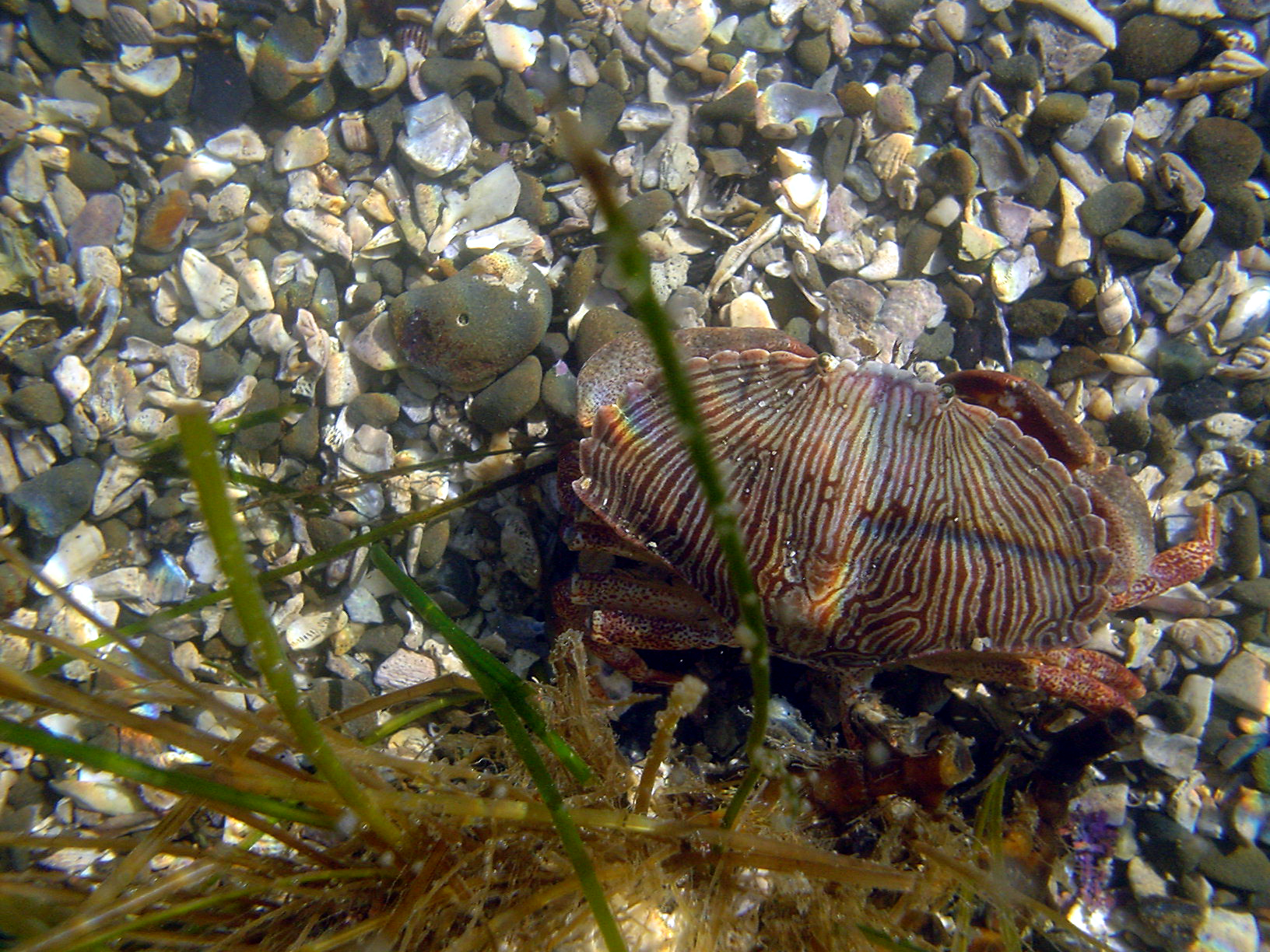 Crab in tidepool